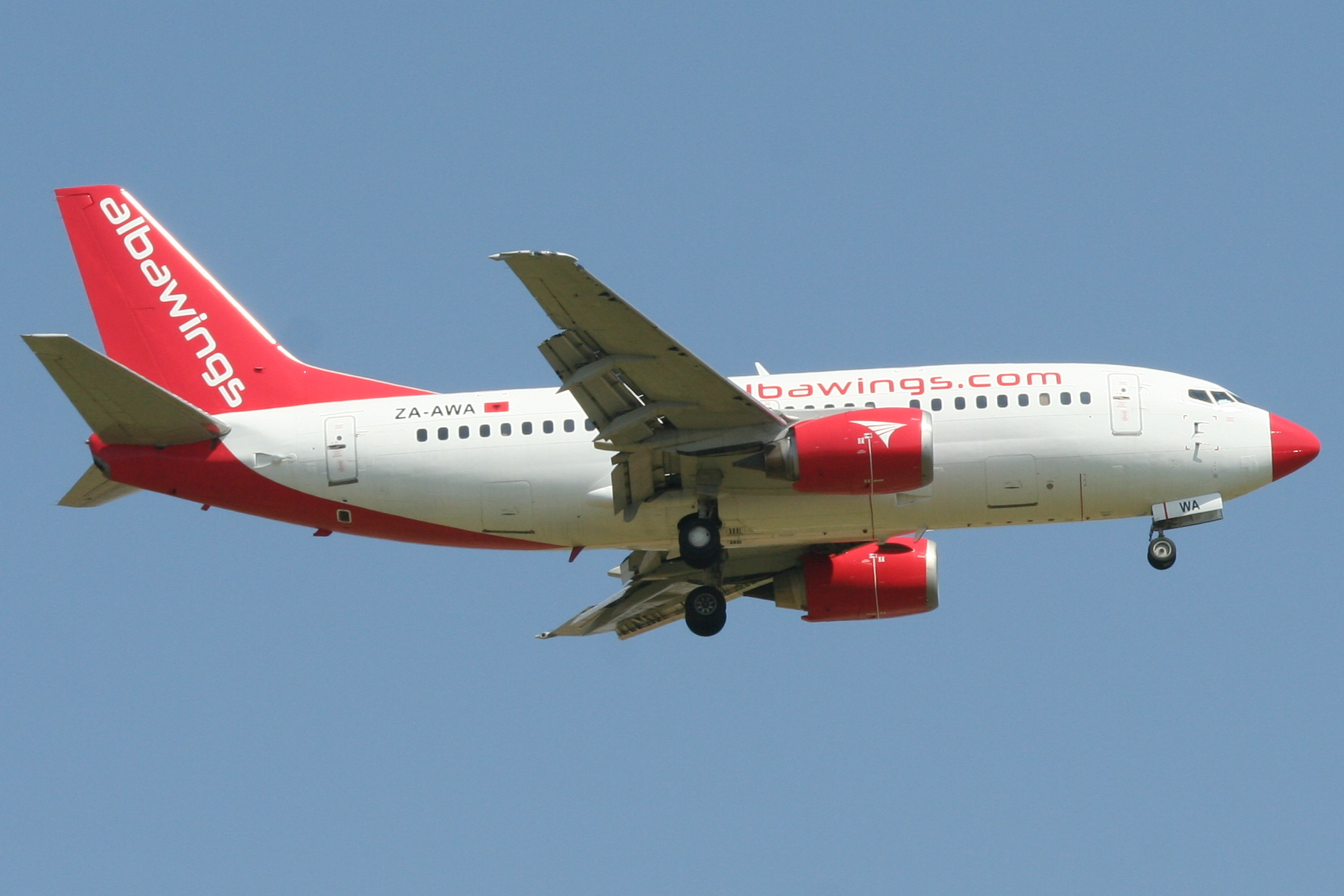 ZA-AWA landing at Ben Gurion International airport.